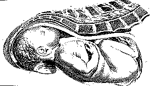 Standard Event System character depiction